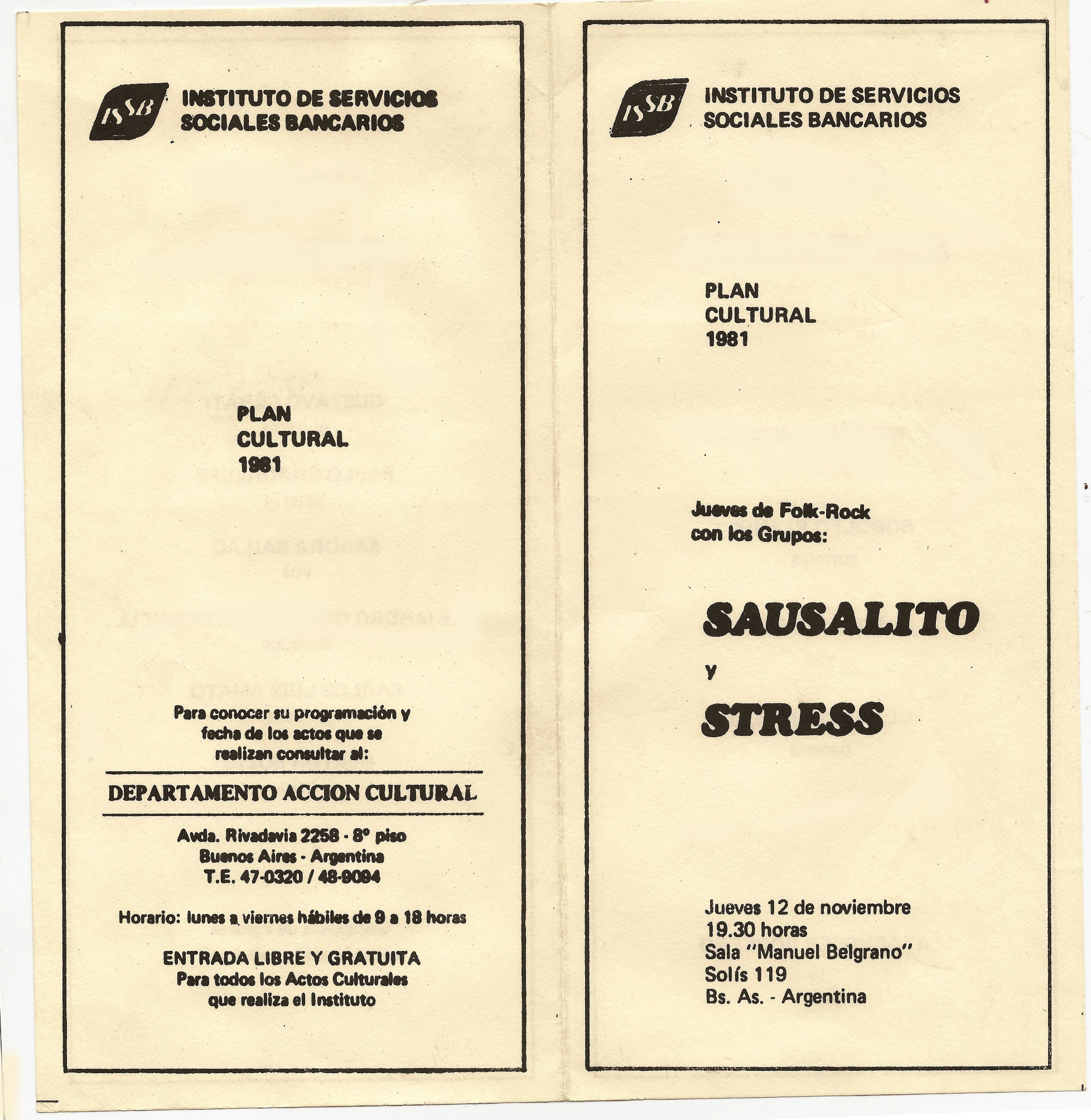 Grupo de Rock "Stress" - Programa Concierto en el Instituto de Servicios Sociales Bancarios, 12 de Noviembre de 1982 Integrantes del grupo: Gustavo Cerati, Hector "Zeta" Bosio, Charlie Amato, Pablo Guadalupe, Alejandro O'Donnell y Sandra Baylac